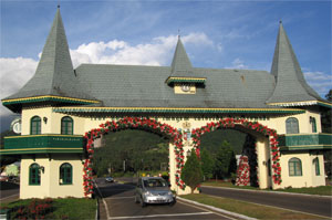 Gramado, Brazil. User Ricardo630 took this photograph.